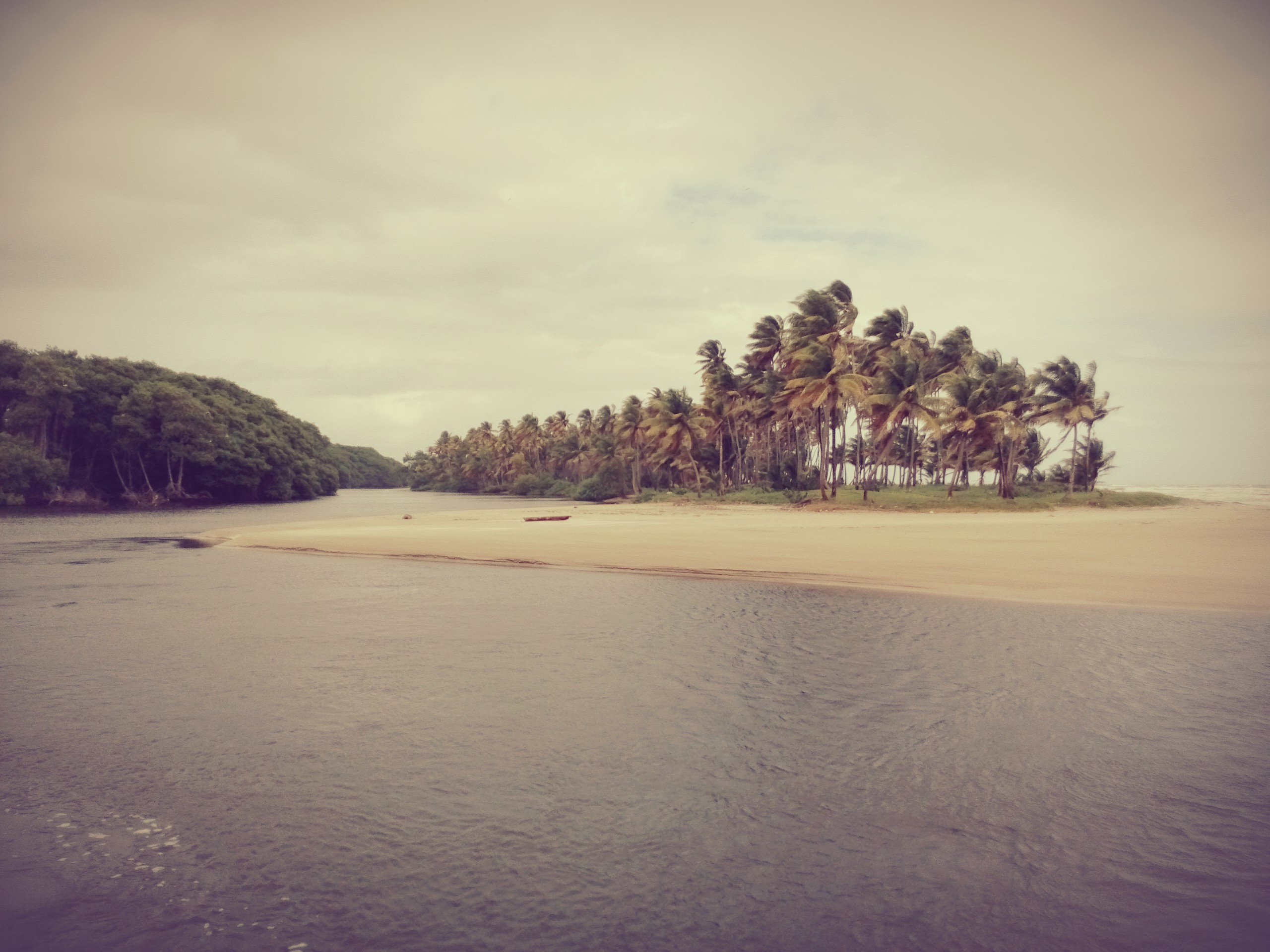 Mouth of the Nariva River, CocosBay, Mayaro-Rio Claro, Trinidad and Tobago.